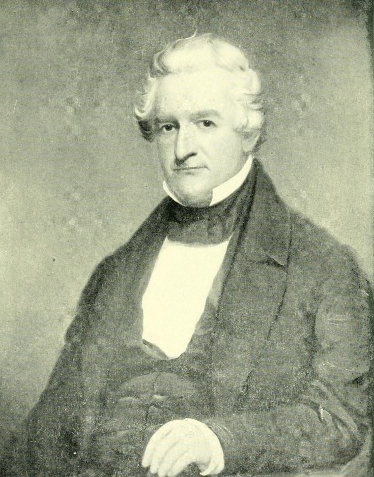 Chauncey Fitch Cleveland, Connecticut Governor